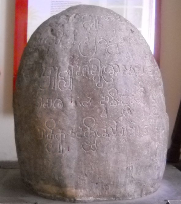 Prasasti Tugu (Tugu Monument) in Museum Sejarah Jakarta